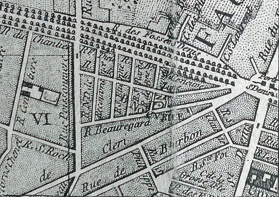 Vaugondy's map of Paris (Bonne Nouvelle district) - 1760